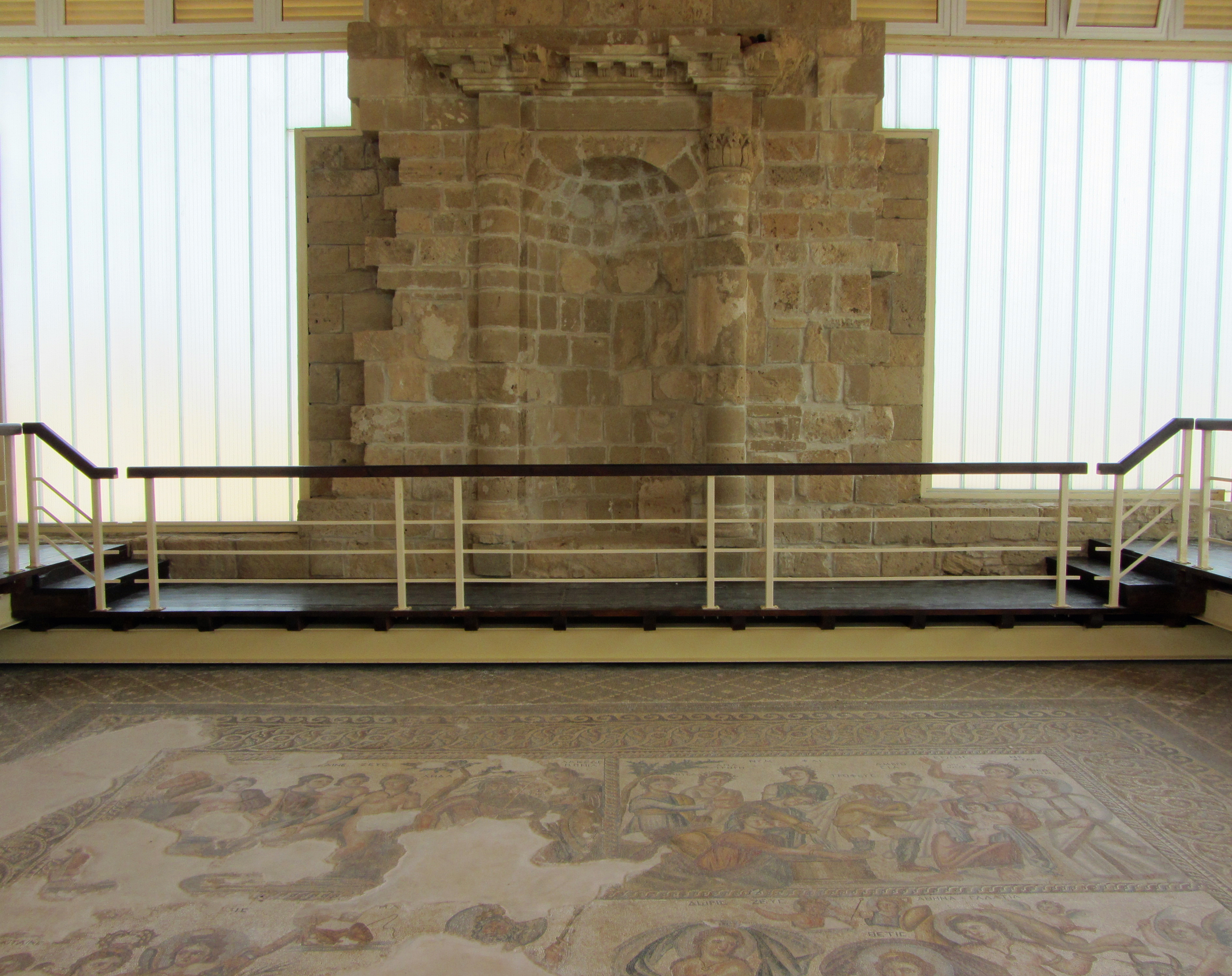 Archaeological Park Paphos Cyprus: House of Aion